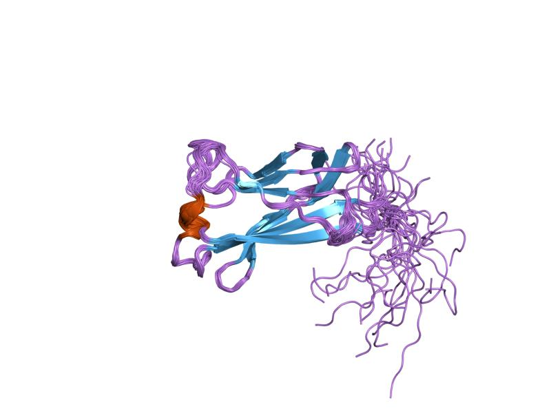 Cartoon representation of the molecular structure of protein registered with 2cr2 code.